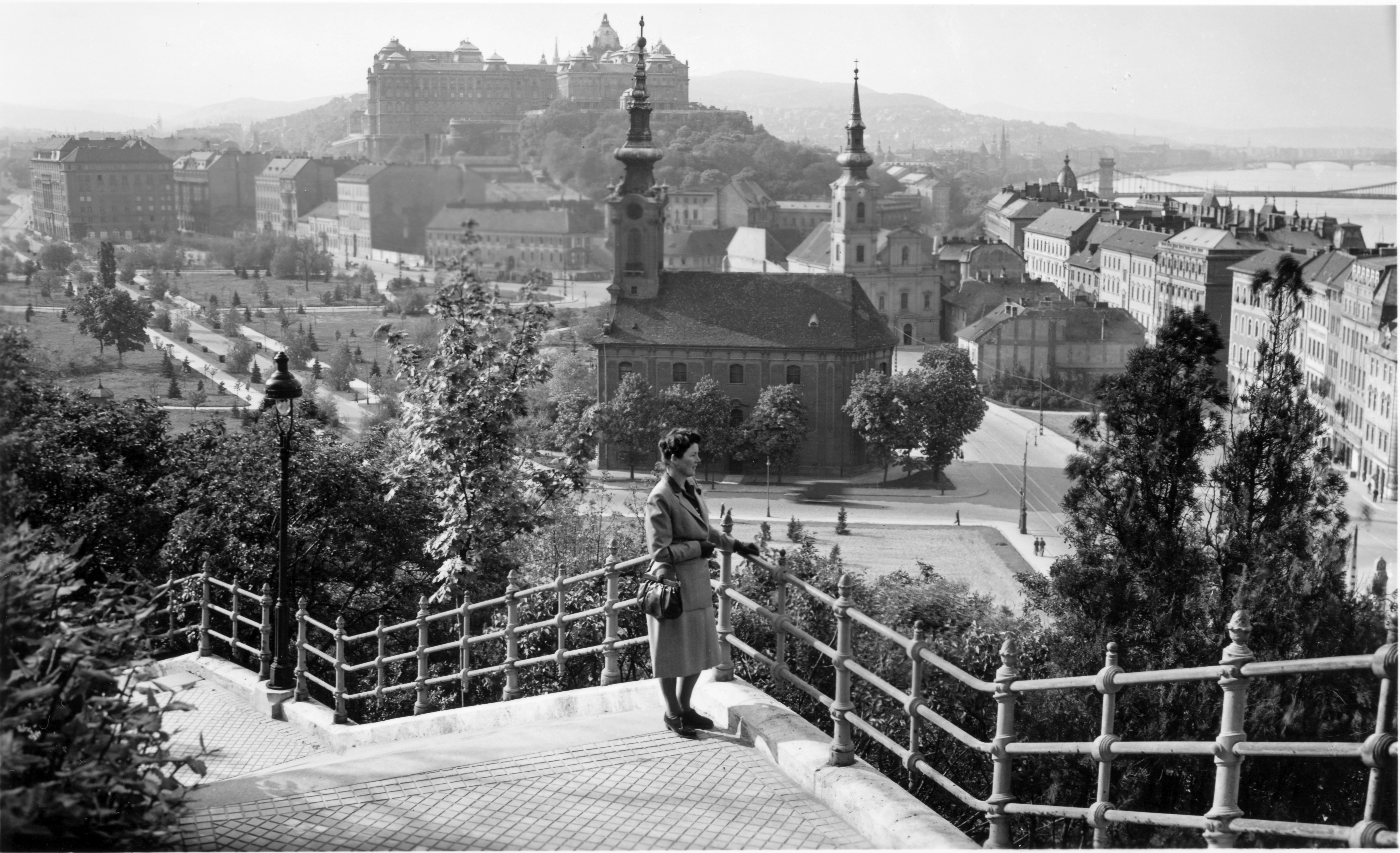 Gertrud Lutz, the wife of Carl Lutz on the stairs of Gellért Hill looking down on the Tabán neighbourhood and the Royal Palace in 1943. The picture shows the Serbian Orthodox Cathedral of St Demetrius, the Roman Catholic Church of St Catherine of Alexandria, the houses of Szebeny Antal (Szarvas) tér, Bethlen-udvar and the Tabán Park.